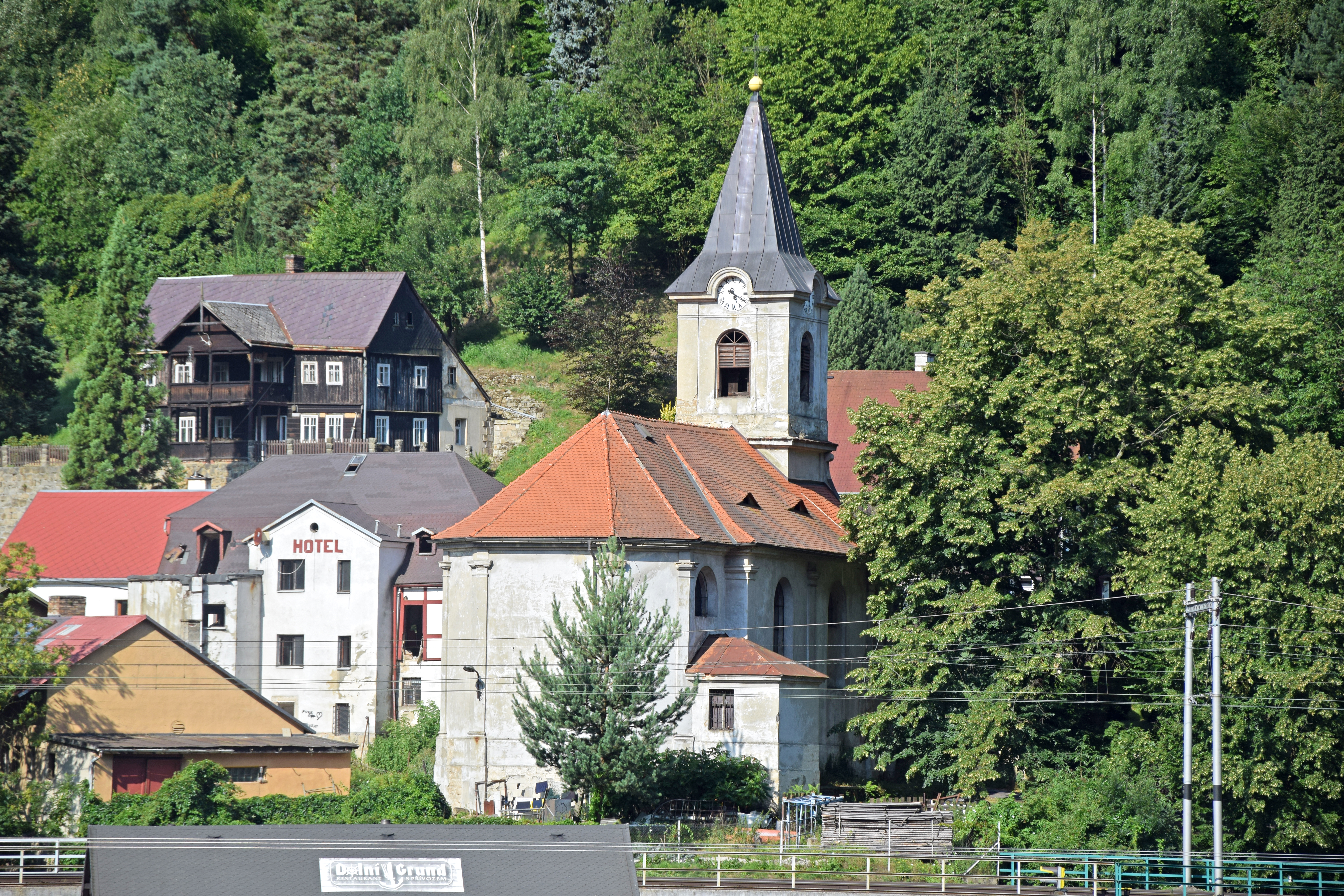 View from the guest house U Přívozu in Hřensko, the Czech Republic, to the Holy Trinity Church in Dolní Žleb.